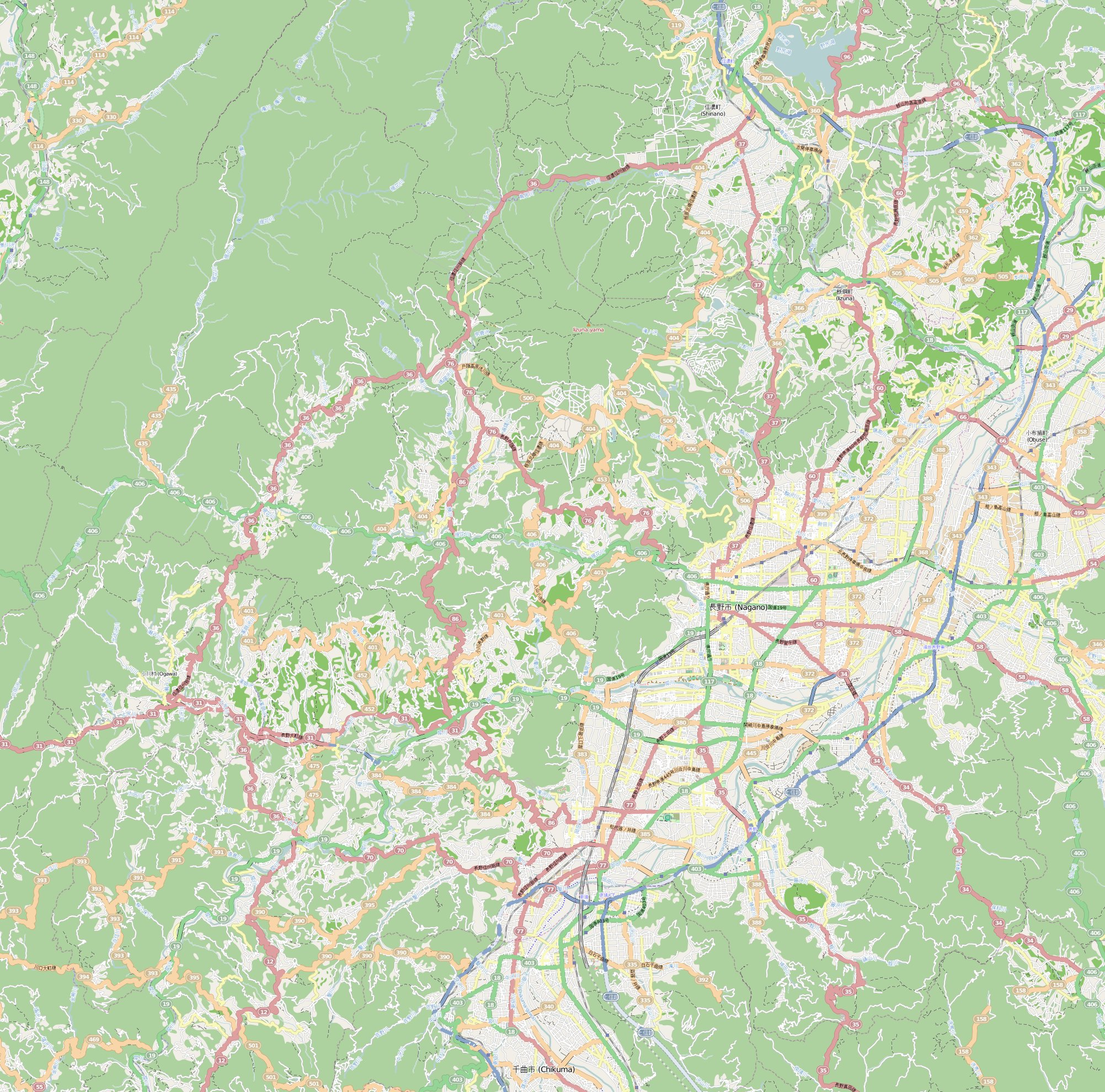 This map of Nagano was created from OpenStreetMap project data, collected by the community. This map may be incomplete, and may contain errors. Don't rely solely on it for navigation.